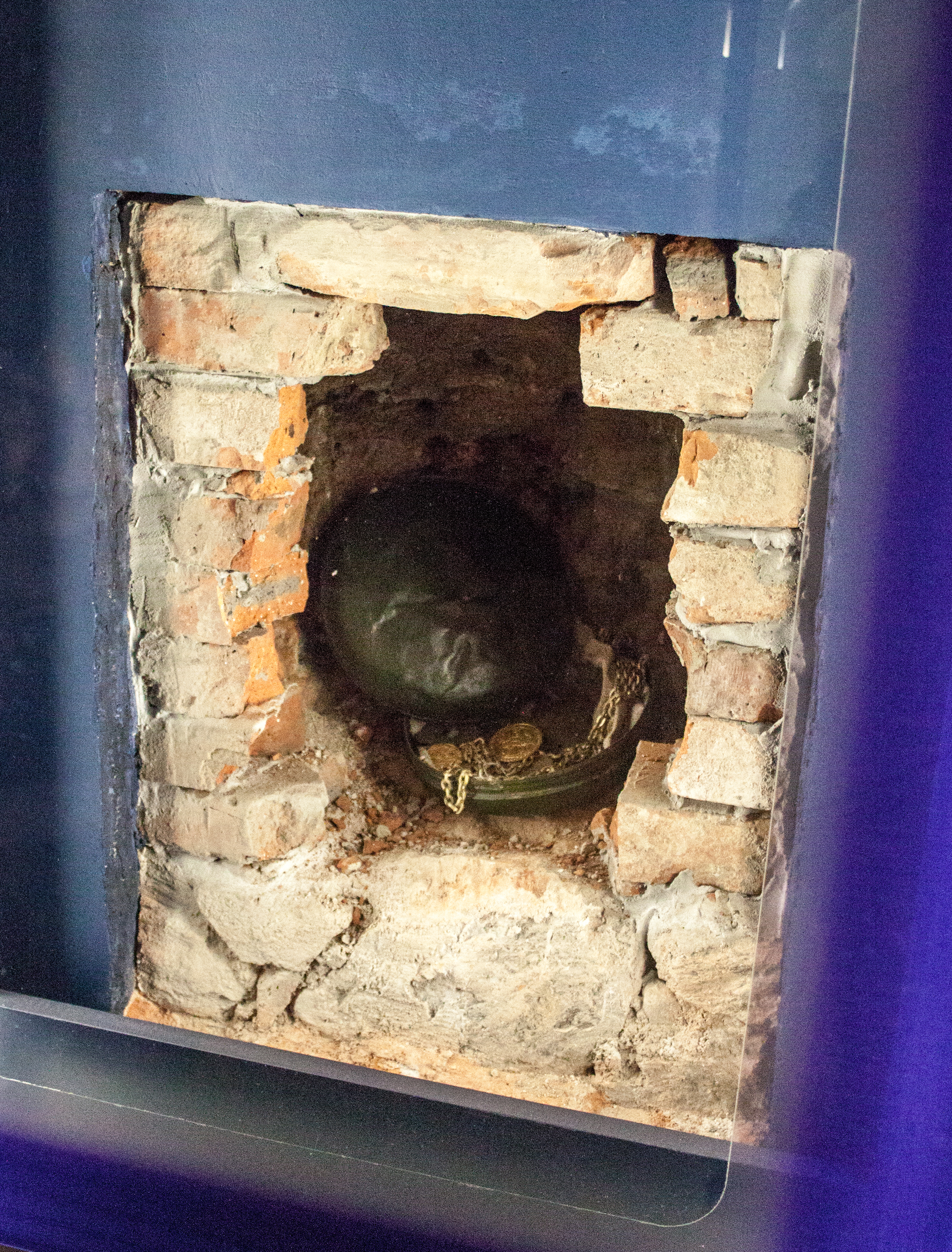 Reconstruction of the site of the golden treasure in Kosicelabel QS:Len,"Reconstruction of the site of the golden treasure in Kosice" label QS:Lhu,"A kassai aranykincs lelőhelyének rekonstrukciója a Kelet-szlovákiai Múzeumban"